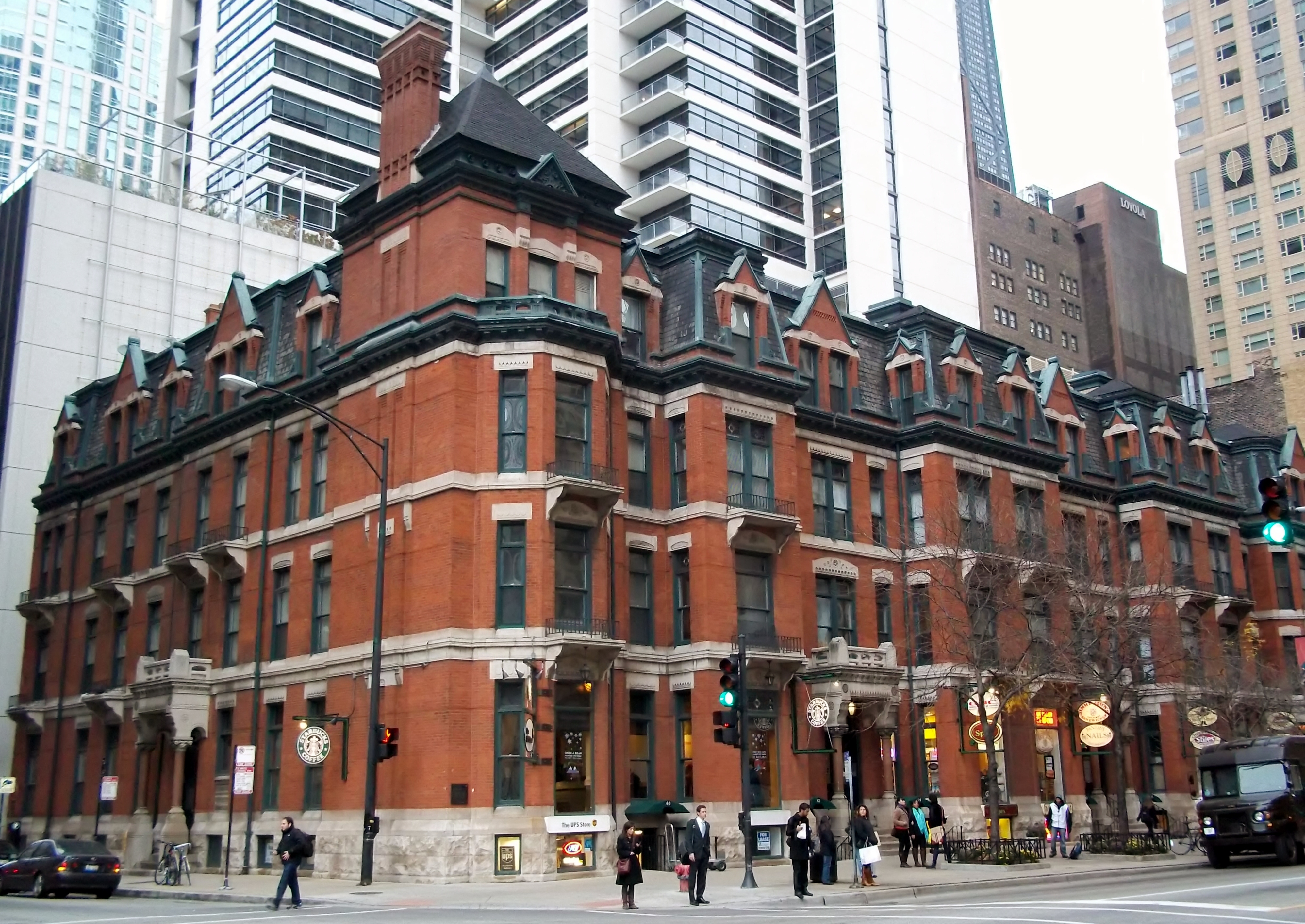 Hotel St. Benedict Flats, National Register of Historic Places Chicago. East Chicago Avenue.